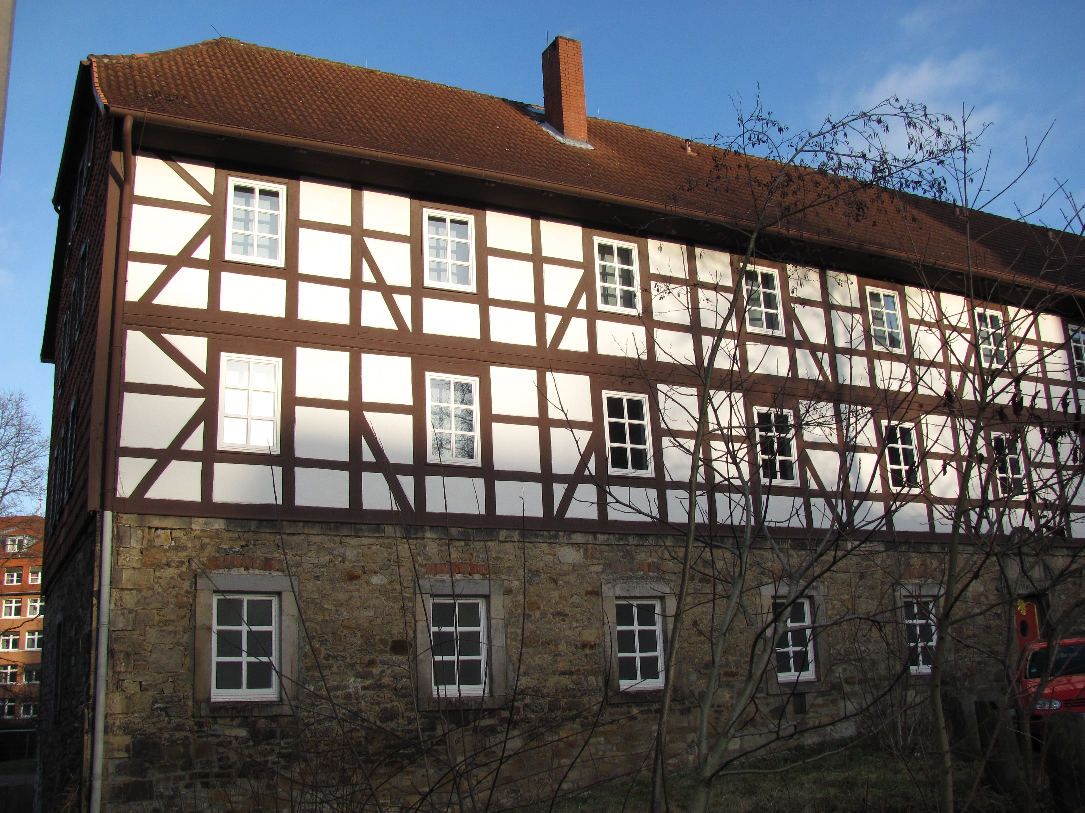 Former Hospital of the Five Wounds, built 1770, Hildesheim, Germany